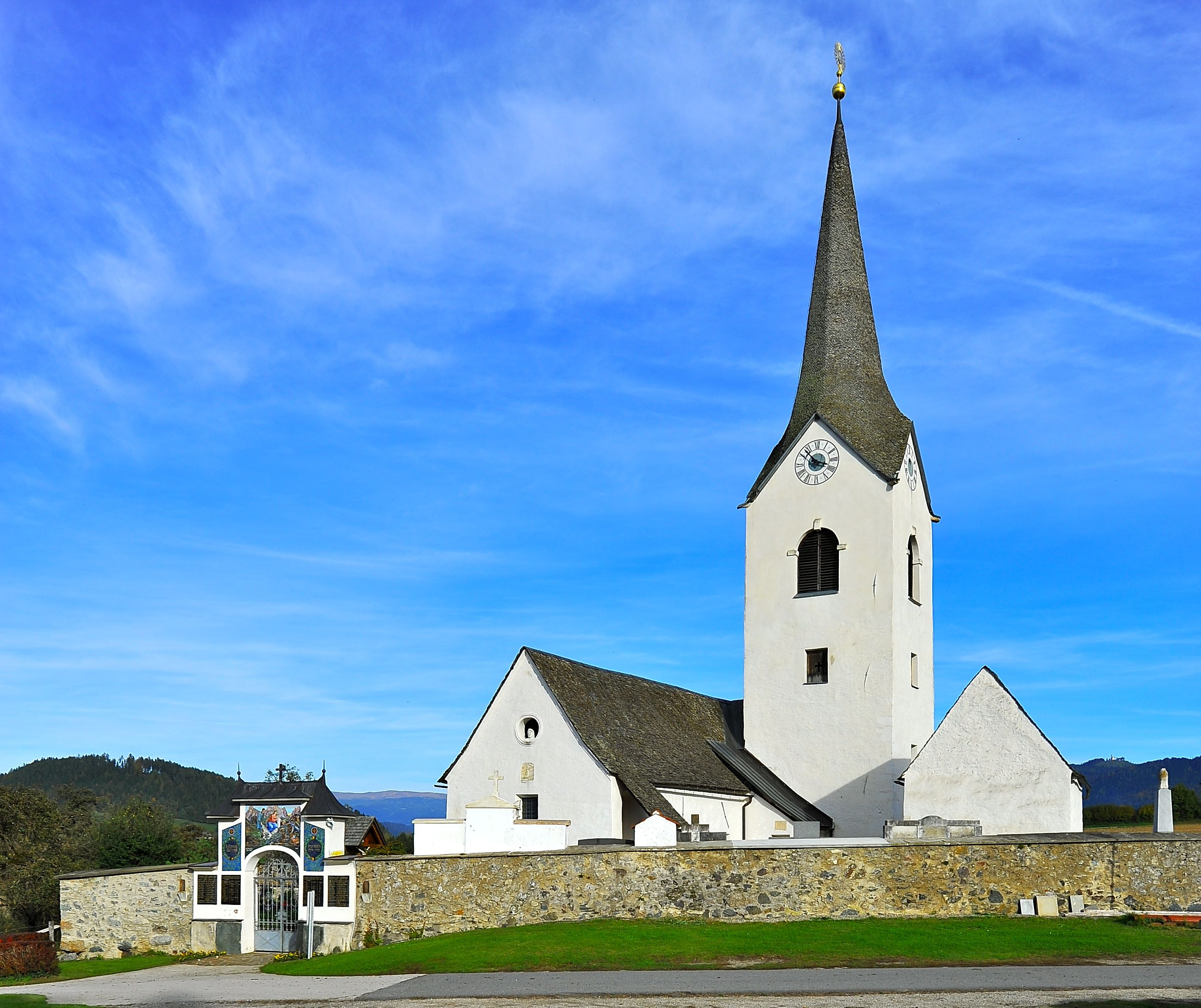 Parish church Saint George in Hörzendorf, municipality Sankt Veit an der Glan, district Sankt Veit, Carinthia, Austria, EU